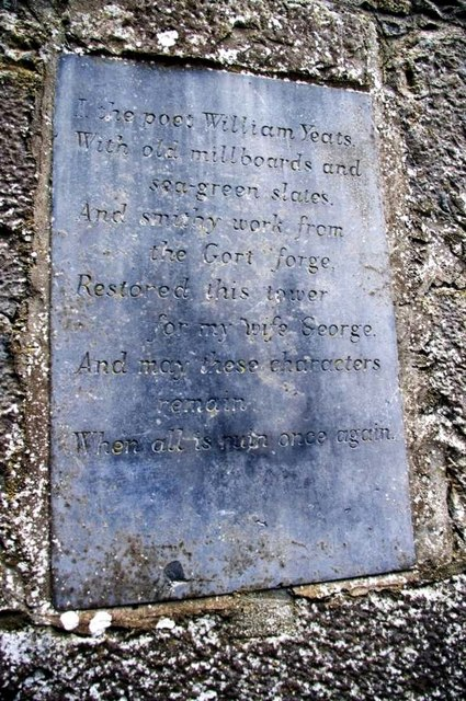 Inscription at Thoor Ballylee The poet's own verse describes his restoration project.